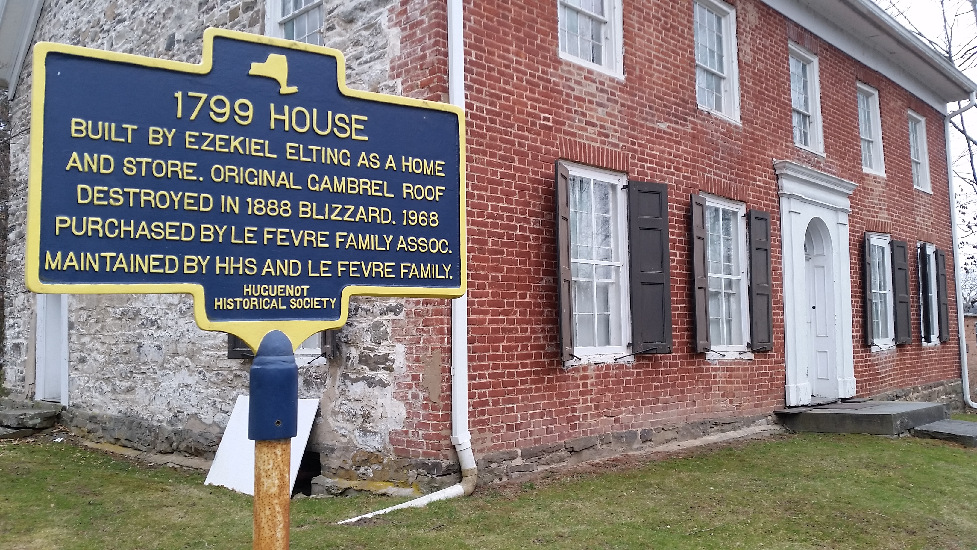 NY State Historic Marker at New Paltz's Huguenot Street Historic District for the 1799 House built by Ezekiel Elting and maintained by the Lefevre family association